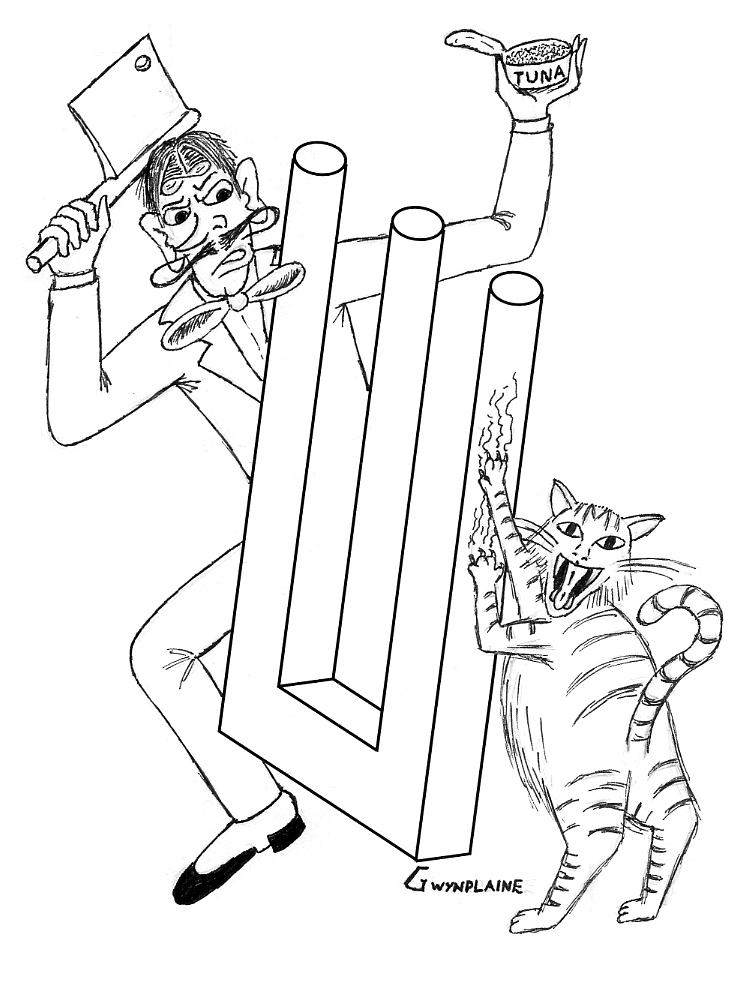 This artwork by F. Gwynplaine MacIntyre, originally published in Analog magazine, illustrates MacIntyre's science-fiction story "Schrödinger's Cat-Sitter". The cat occupies a quantum superposition relative to the tined object, being simultaneously in front of and behind the object, which itself occupies a quantum superposition because it is simultaneously a square-edged object with two tines and a round-edged object with three tines.